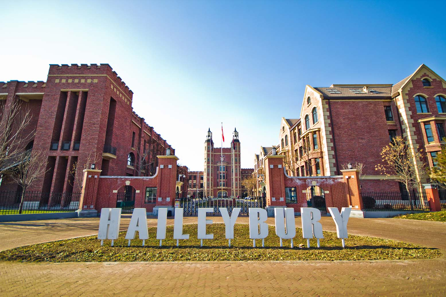 Large lettering outside HIST front gate